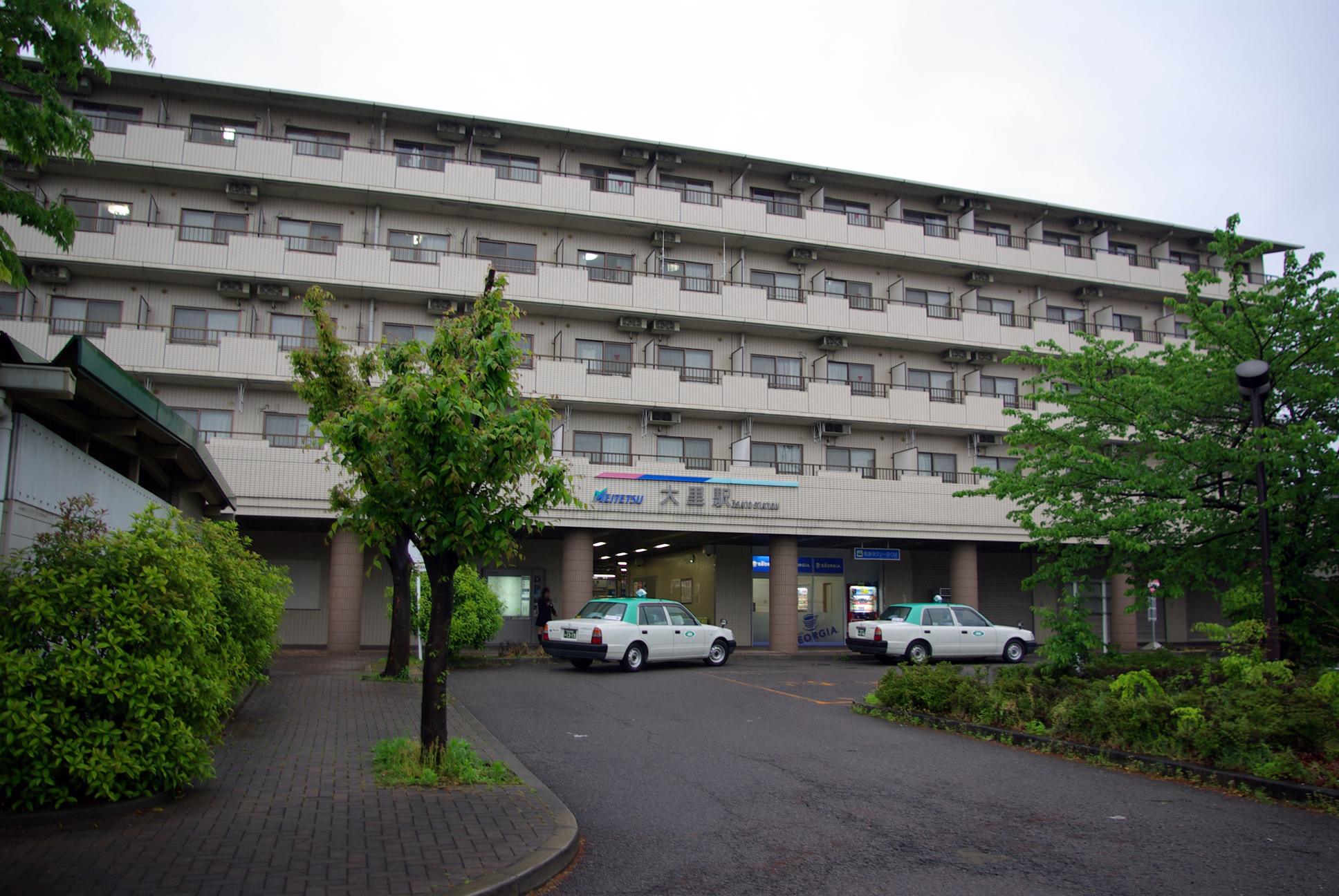 Osato Station on Meitetsu Nagoya Main Line